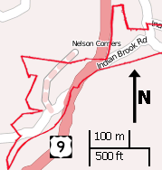 Map of Indian Brook Road Historic District, near Garrison, NY, USA This map may be incomplete, and may contain errors. Don't rely solely on it for navigation.